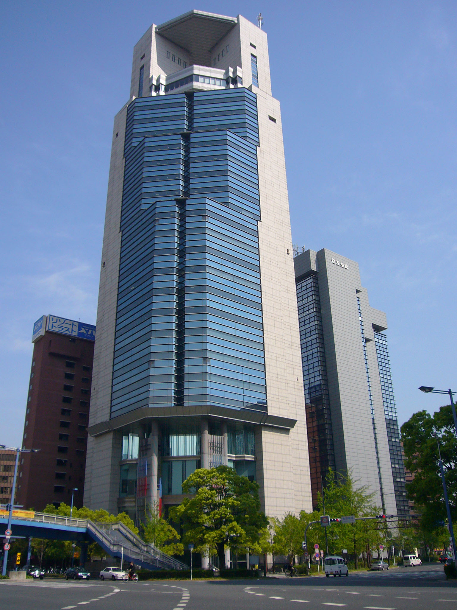 Nissay Dowa General Insurance Co.,Ltd. Head Office (Phoenix Tower) in Osaka, Japan